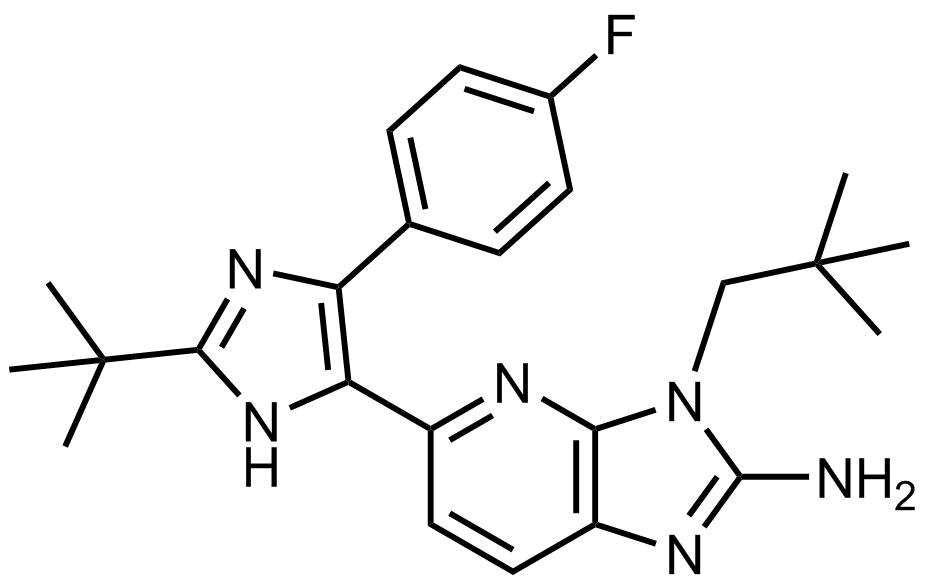 Structure of ralimetinib